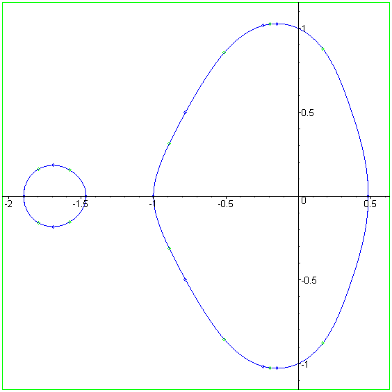 Second Mandelbrot curve, of degree eight and genus nine.